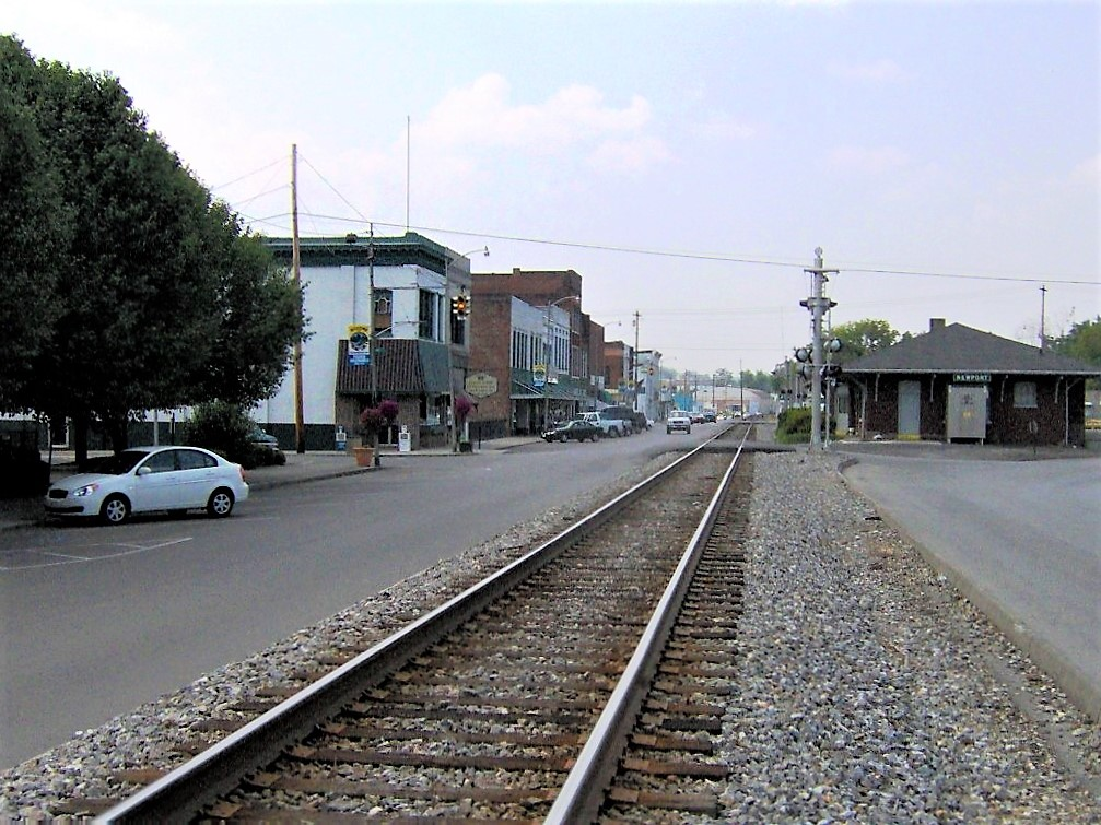 The railroad depot in Newport, Tennessee.